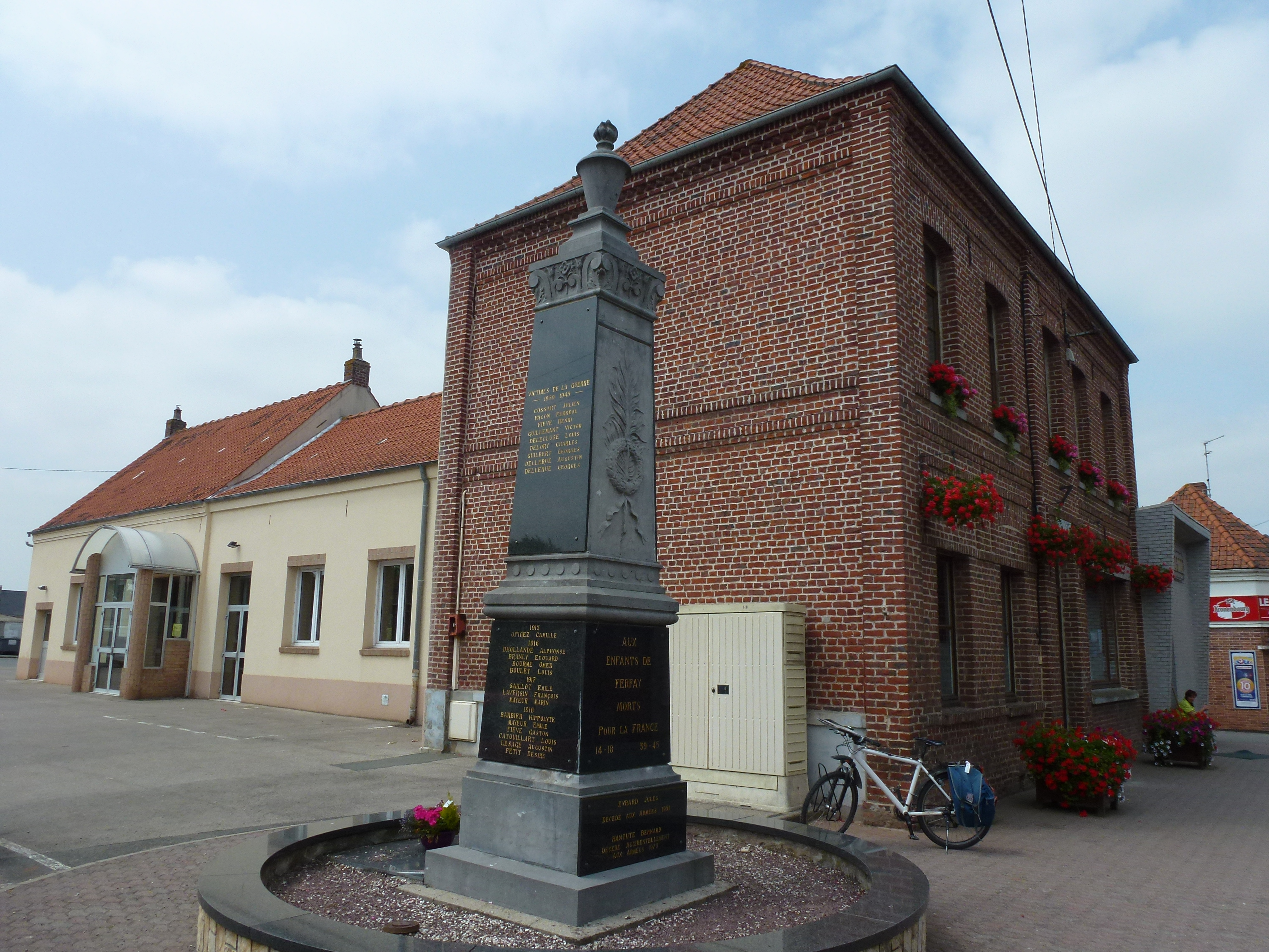 Ferfay (Pas-de-Calais, Fr) mairie et monument aux morts